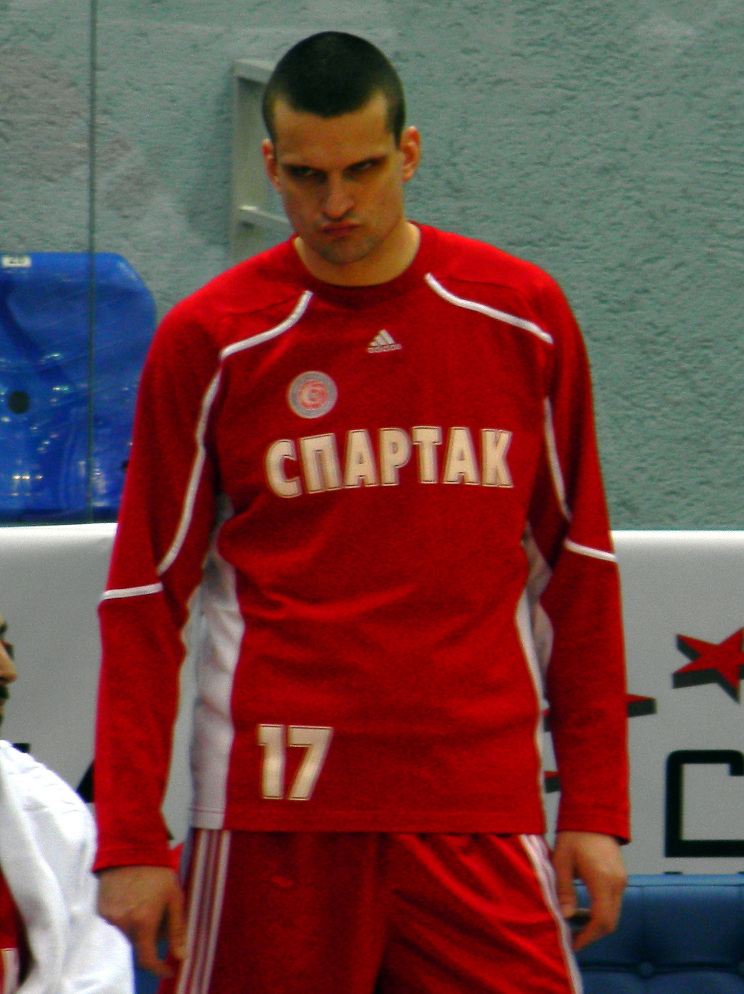 Petar Popović, serbian basketball player from Spartak Saint-Petersburg in the game against BC Nizhny Novgorod on March 19th, 2011